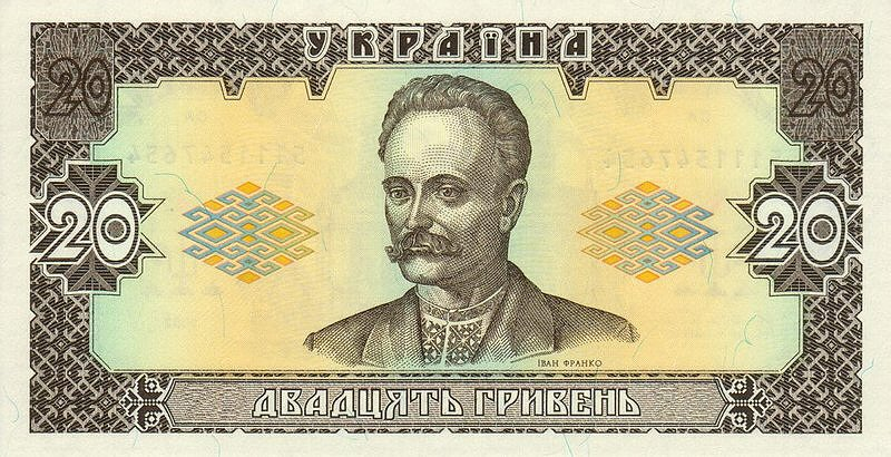 20 Hryvnia banknote (Ukraine), 1992, front. Иван Франко